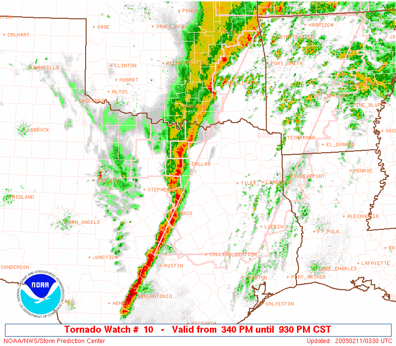 Radar image of the line of severe thunderstorms associated with tornado watch #10